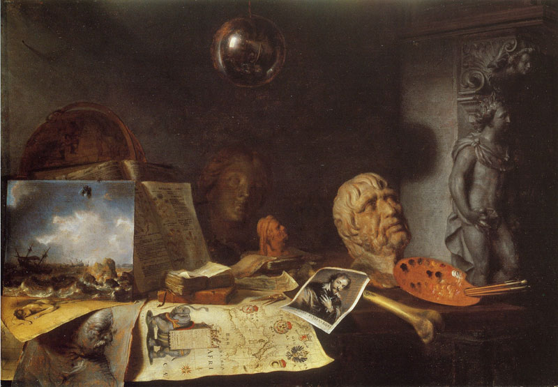 Corner of a Painter's Studio: Allegory of the Arts